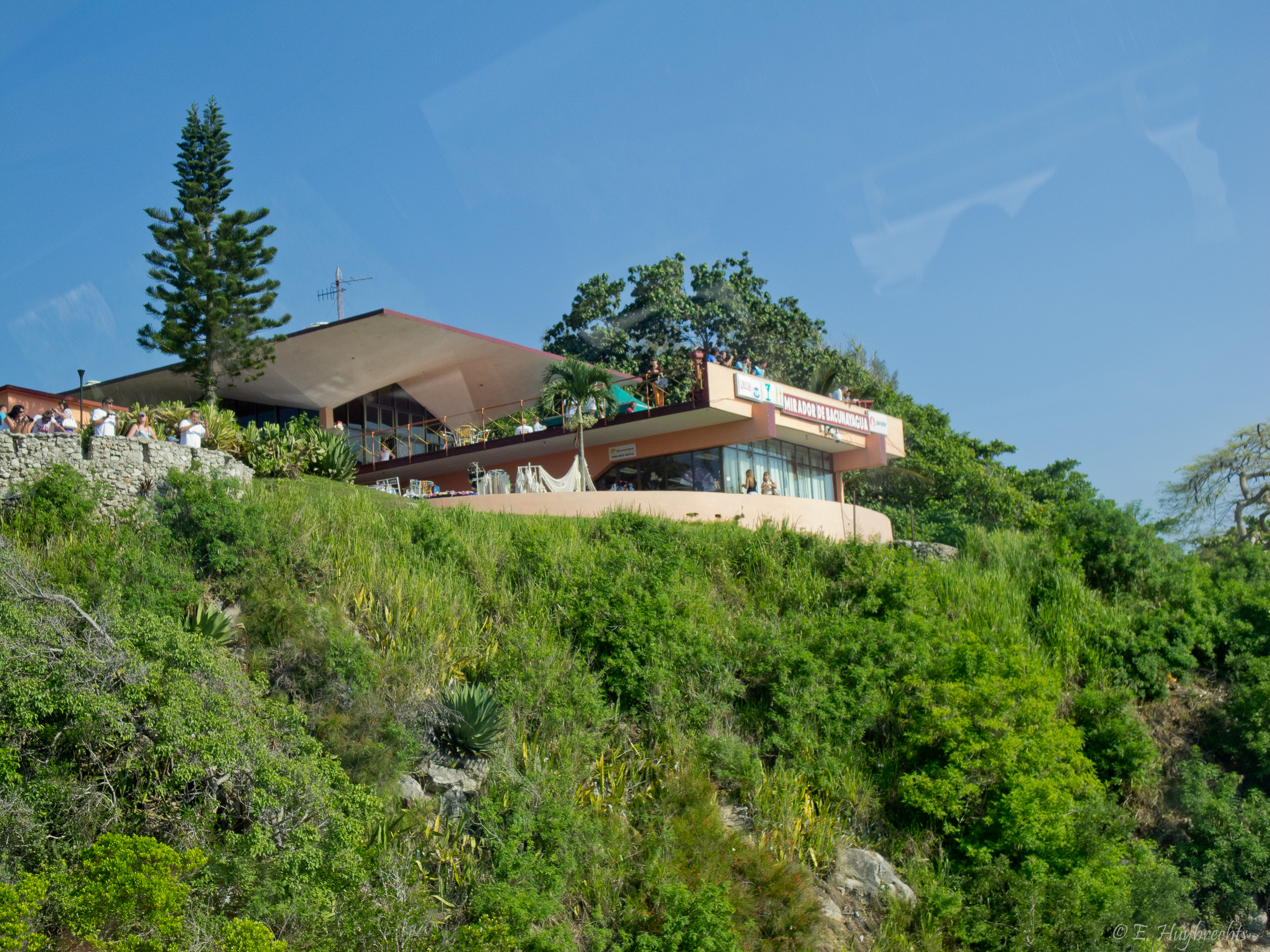 Mirador de Bacunayagua — on the Vía Blanca, overlooking the Straits of Florida, in northern Cuba. 20 juillet 2011 (SAM_0589)